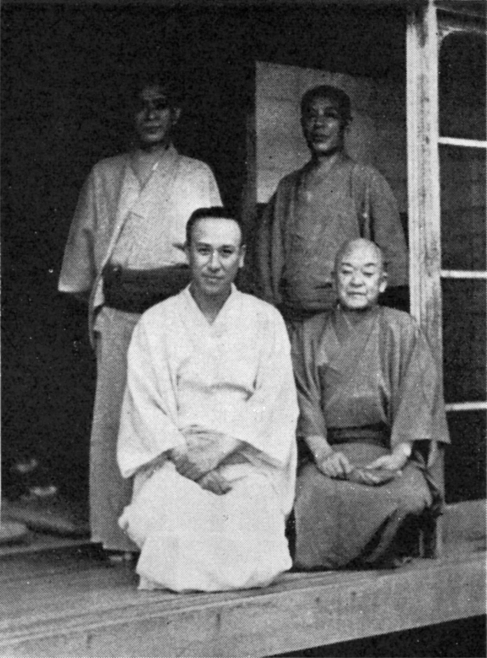 Meeting for Taiseiban Utaibon, Japanese Noh actors Kanze Kasetsu, TAKEDA Sojiro, KANZE Sakon, UMEWAKA Manzaburo